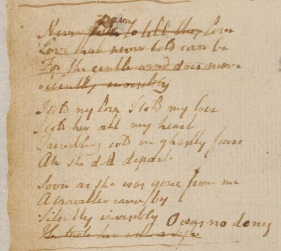 Blake manuscript - Notebook 02 - Never pain to tell thy love Notebook p. 115